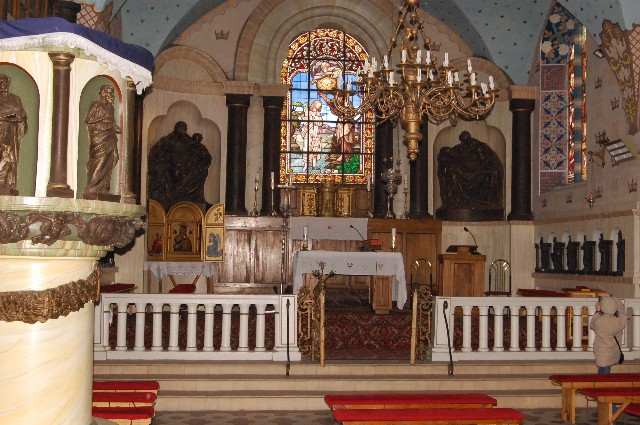 Church in sluzewo in Central Poland. Presbytery